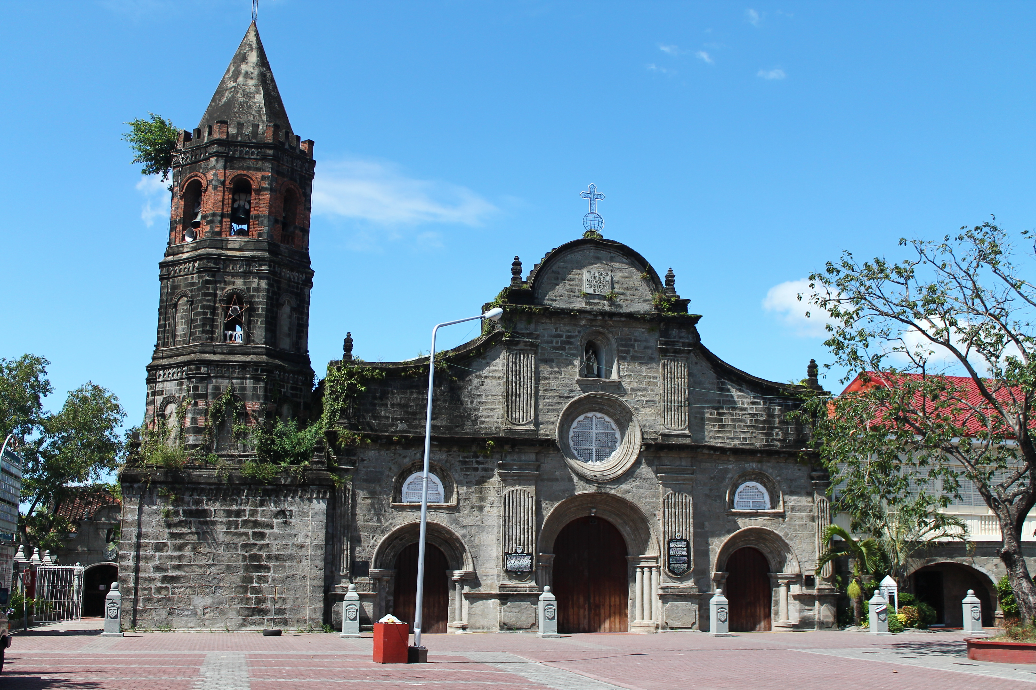 The iconic church in Bulacan, Philippines